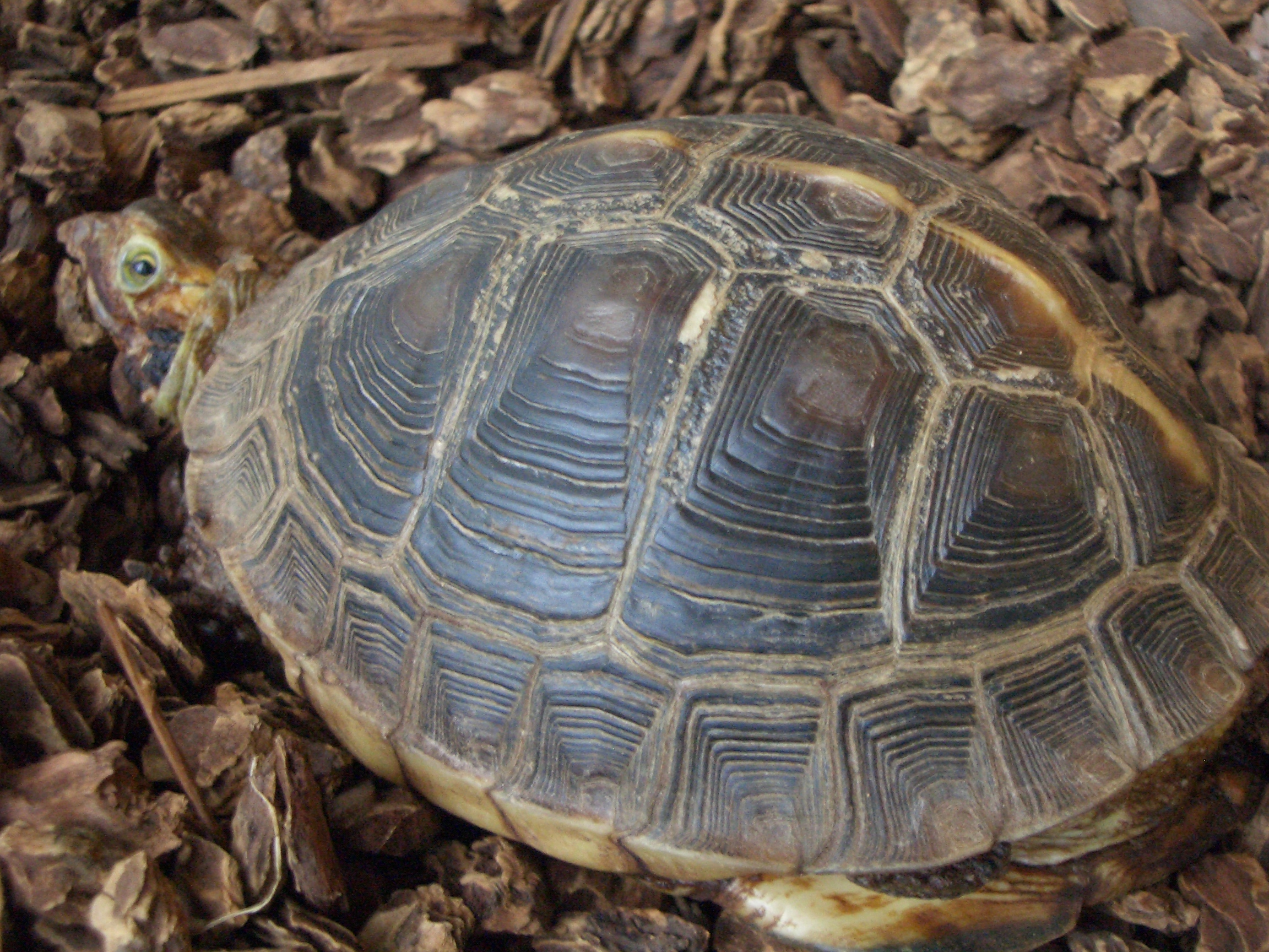 Female chinese box turtle on bark in terrarium (hidden).